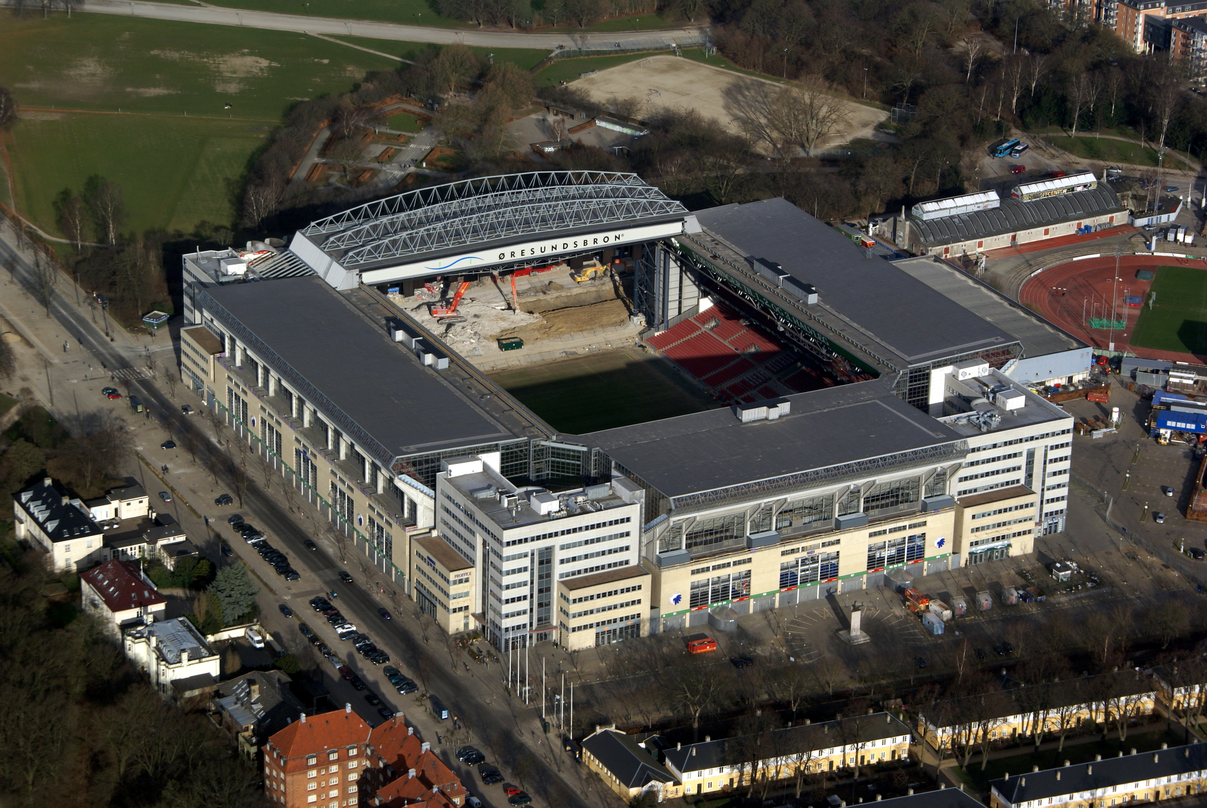 Parken Stadium, Copenhagen, Denmark